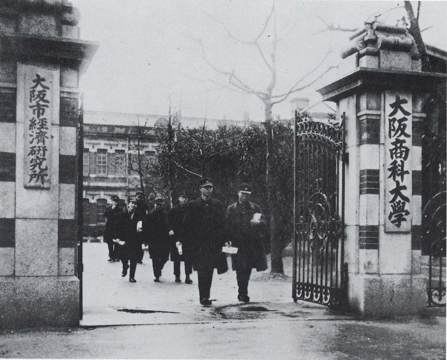 The main gate of Osaka University of Commerce, a predecessor of Osaka City University. The university was located in Karasugatsuji, Tennoji-ku until 1935.